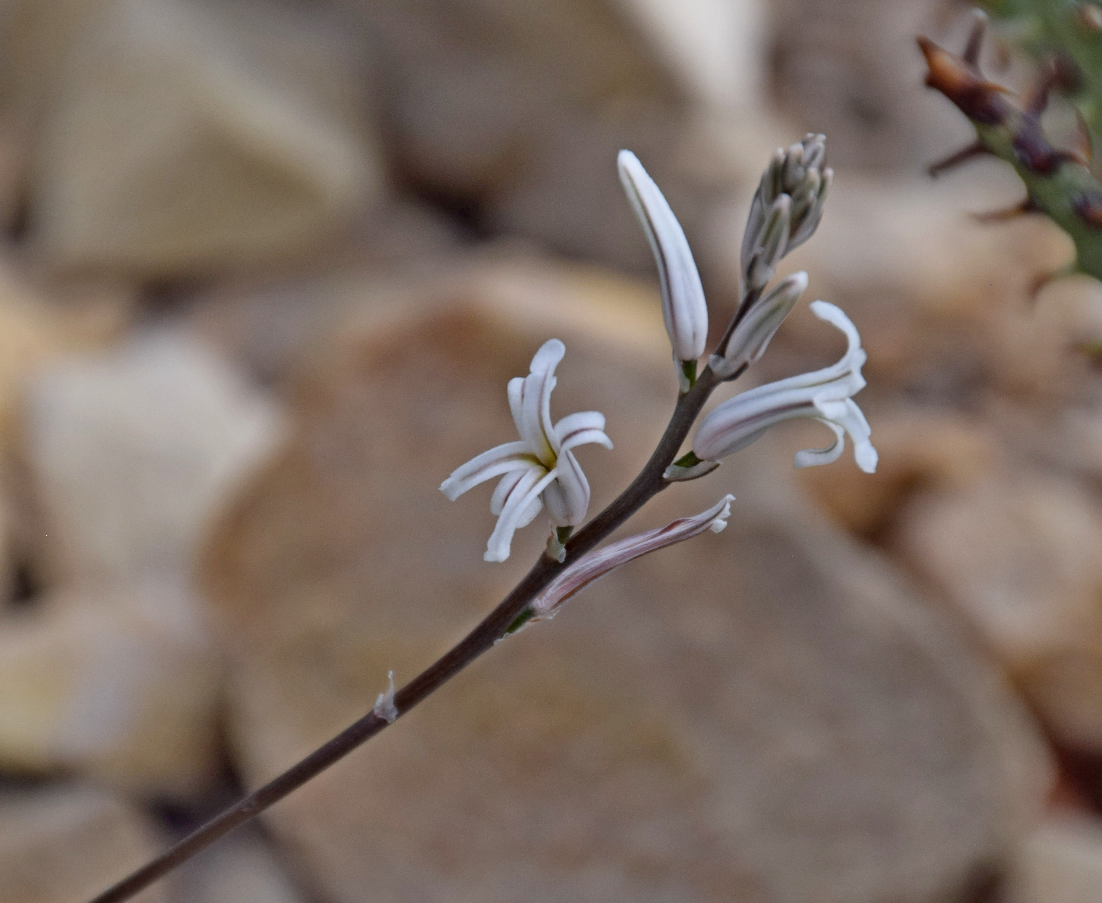 Haworthia marumiana in Tropengewächshäuser des Botanischen Gartens, Hamburg